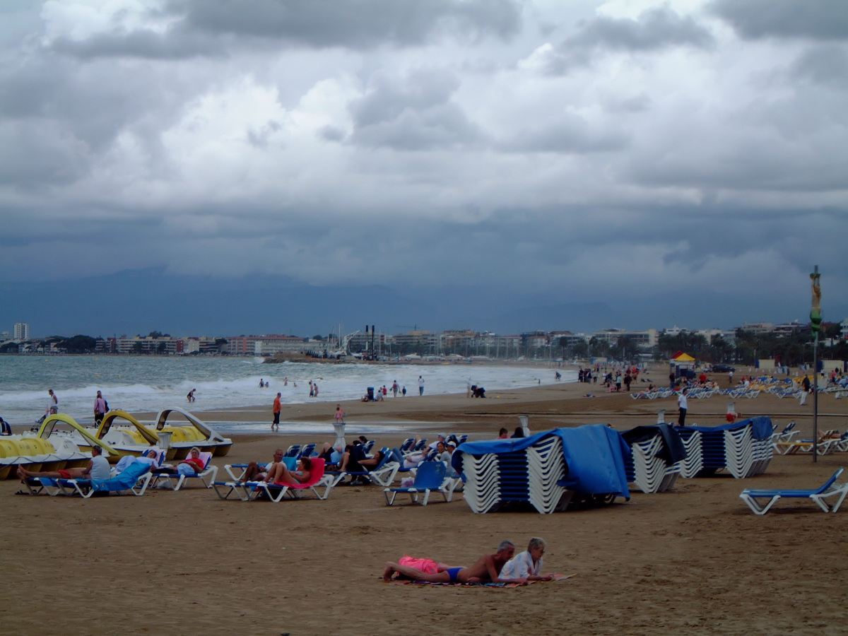 Seaside resort of Salou in Spain. Oct 2005 by Crossbyname 21:10, 9 February 2006 (UTC).